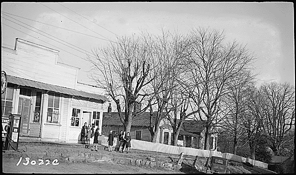 Girls in front of a filling station in Louisville, Tennessee, USA, photographed by TVA as part of the Fort Loudoun Dam project in 1942.